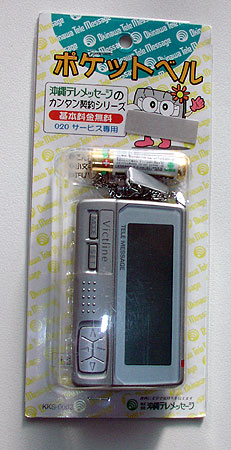 Okinawa Tele Message Pager